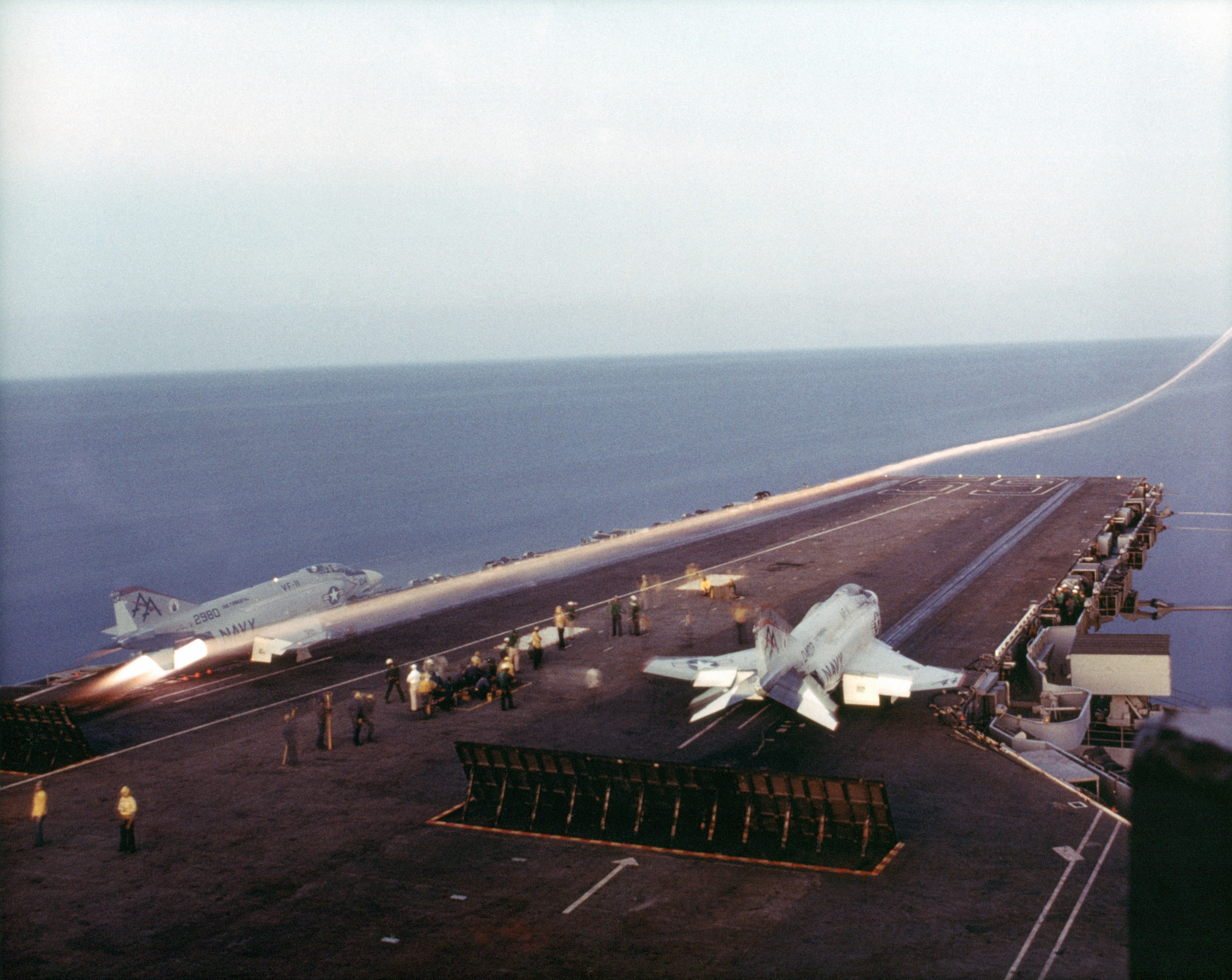 Time exposure at twilight as a U.S. Navy McDonnell F-4B Phantom II of fighter squadron VF-11 Red Rippers takes off from the deck of the aircraft carrier USS Forrestal (CVA-59), sometime between 1967 and 1973 (when VF-11 flew the F-4B).